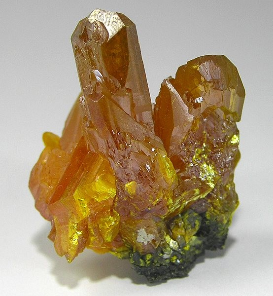 Orpiment Locality: Twin Creeks Mine, Potosi District, Humboldt County, Nevada, USA (Locality at ) Size: 3.3 x 2.1 x 2.1 cm. A small mini from the now-famous find of orpiment in Nevada that set a new standard of quality for the species. This specimen features an elongated, translucent, superbly-formed and terminated crystal sticking up as the centerpiece, with smaller ones surrounding it.